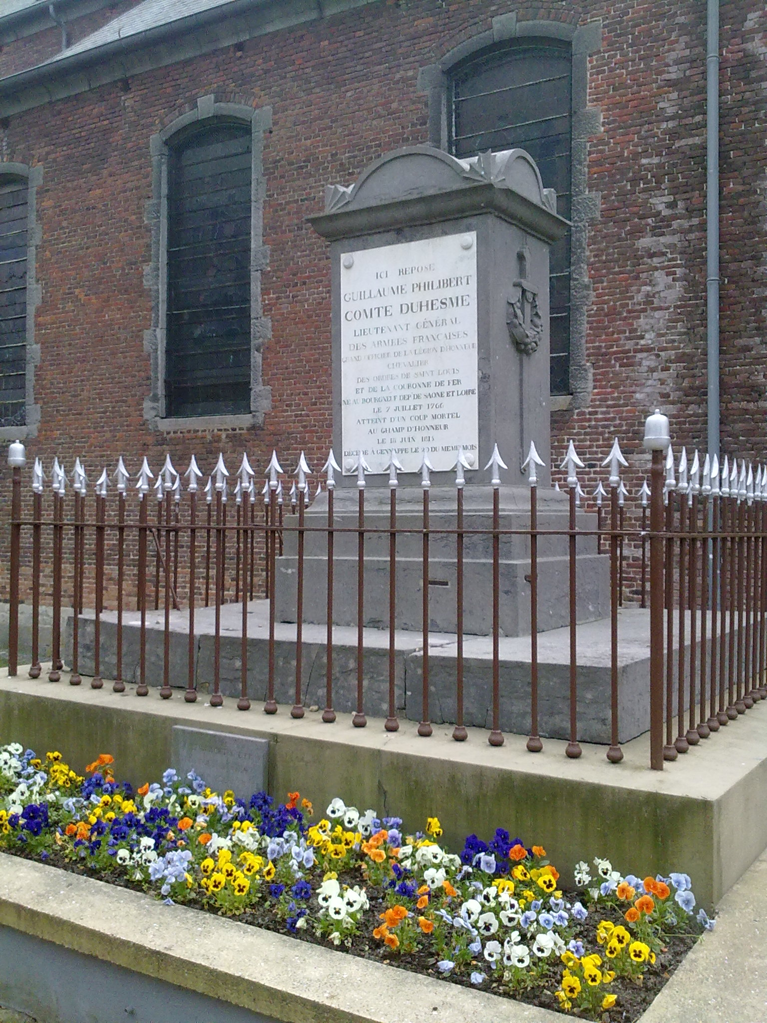 French General Duhesme Grave in Ways (Brabant, Belgium)